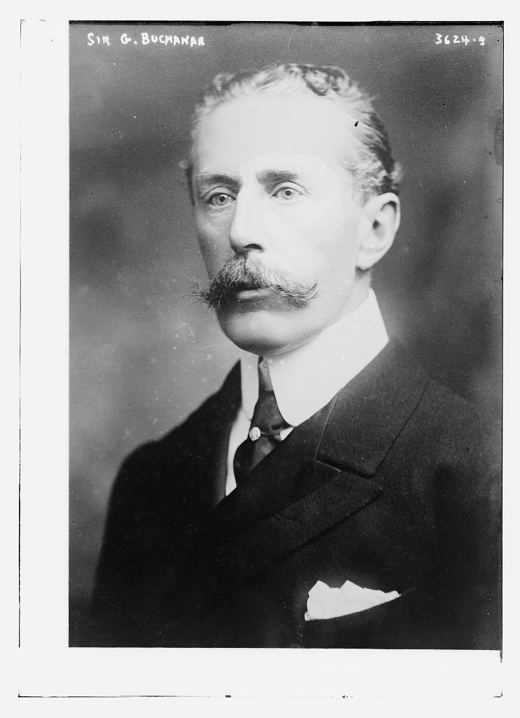 Sir George William Buchanan